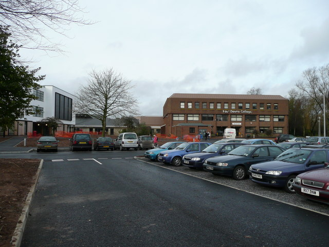 East Devon College Situated off Bolham Road to the north of Tiverton. A new building has recently gone up to the left of the reception block.